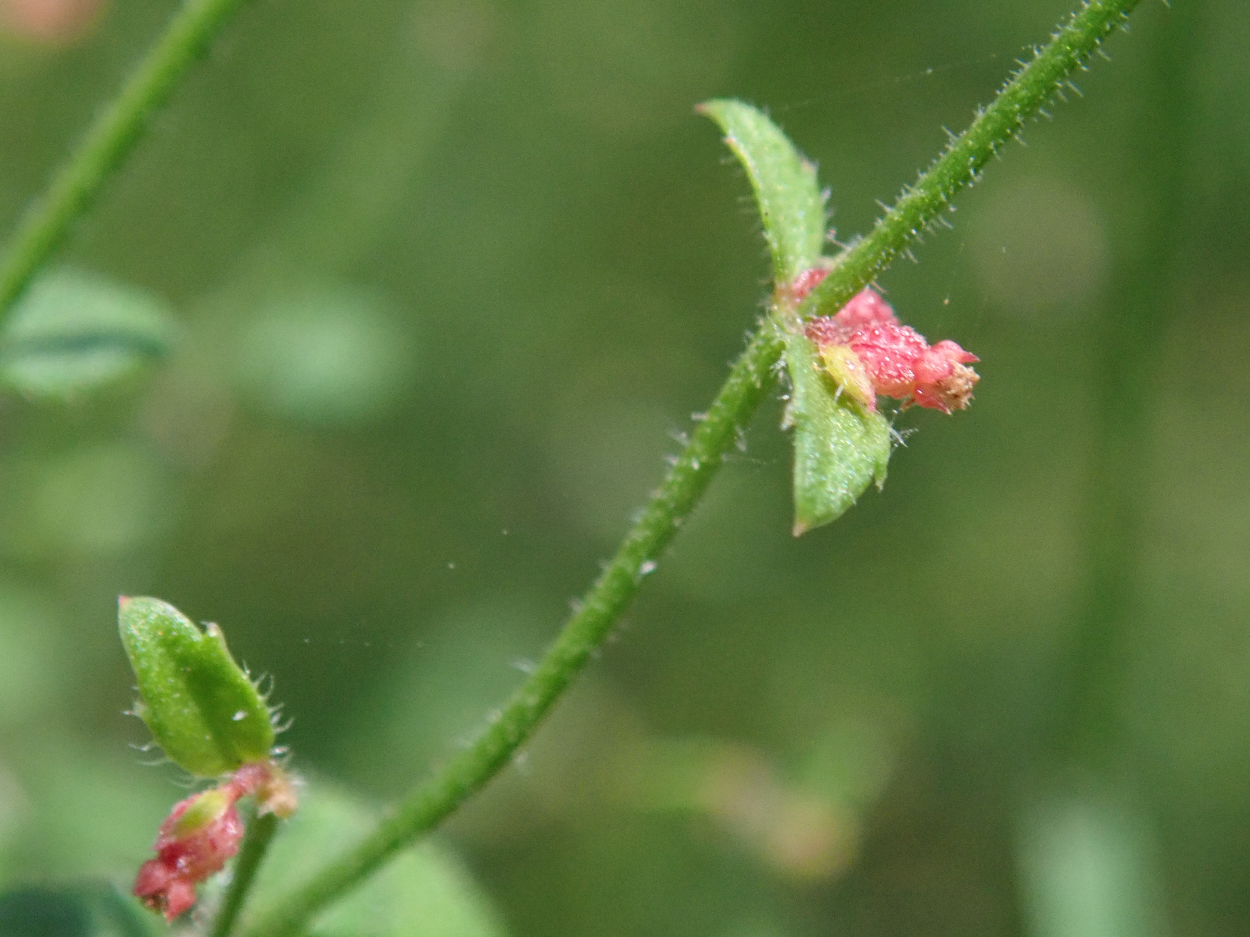 Gonocarpus teucrioides, Lane Cove NP, 13/11/2019